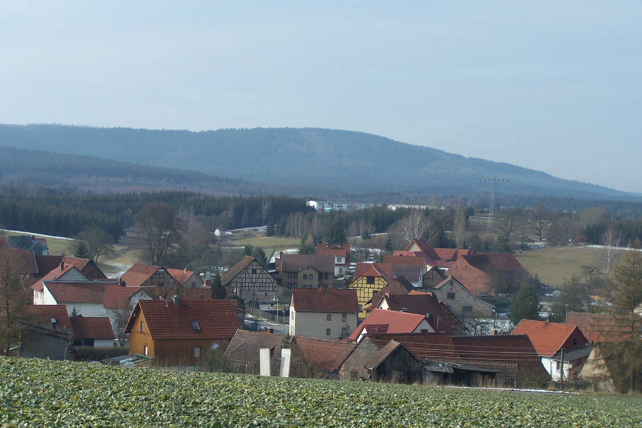 The western part of Übelroda village.